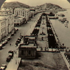 Guyaquil Waterfront, c. 1920, from Stereopticon card